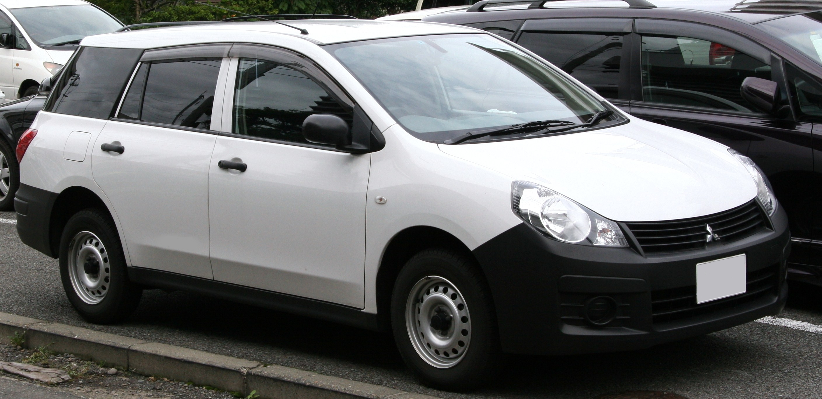 Mitsubishi Lancer Cargo